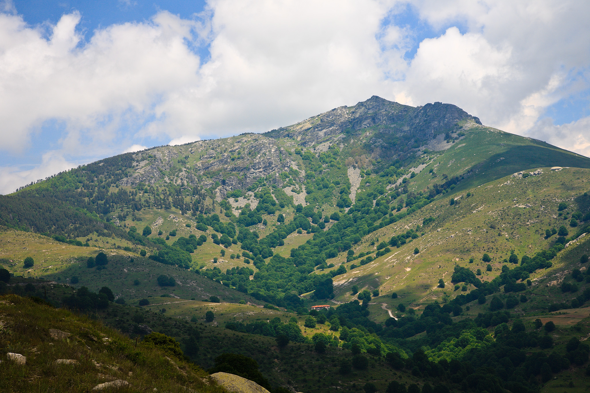 The Profitis Ilias (Ali Baba) summit in Vrondos mountain(Sharlia) in Northern Greece